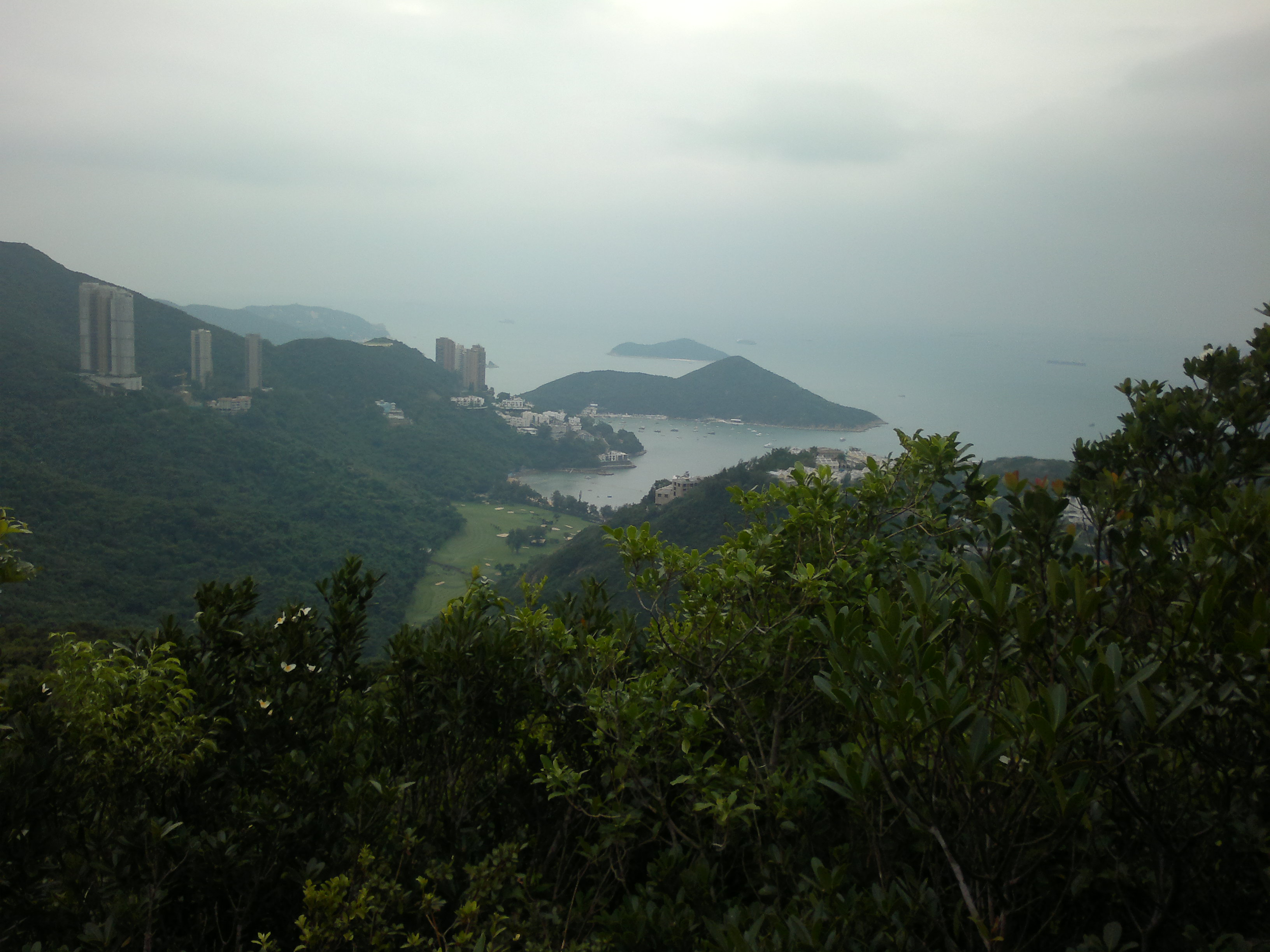 Deep Water Bay Valley and Middle Island